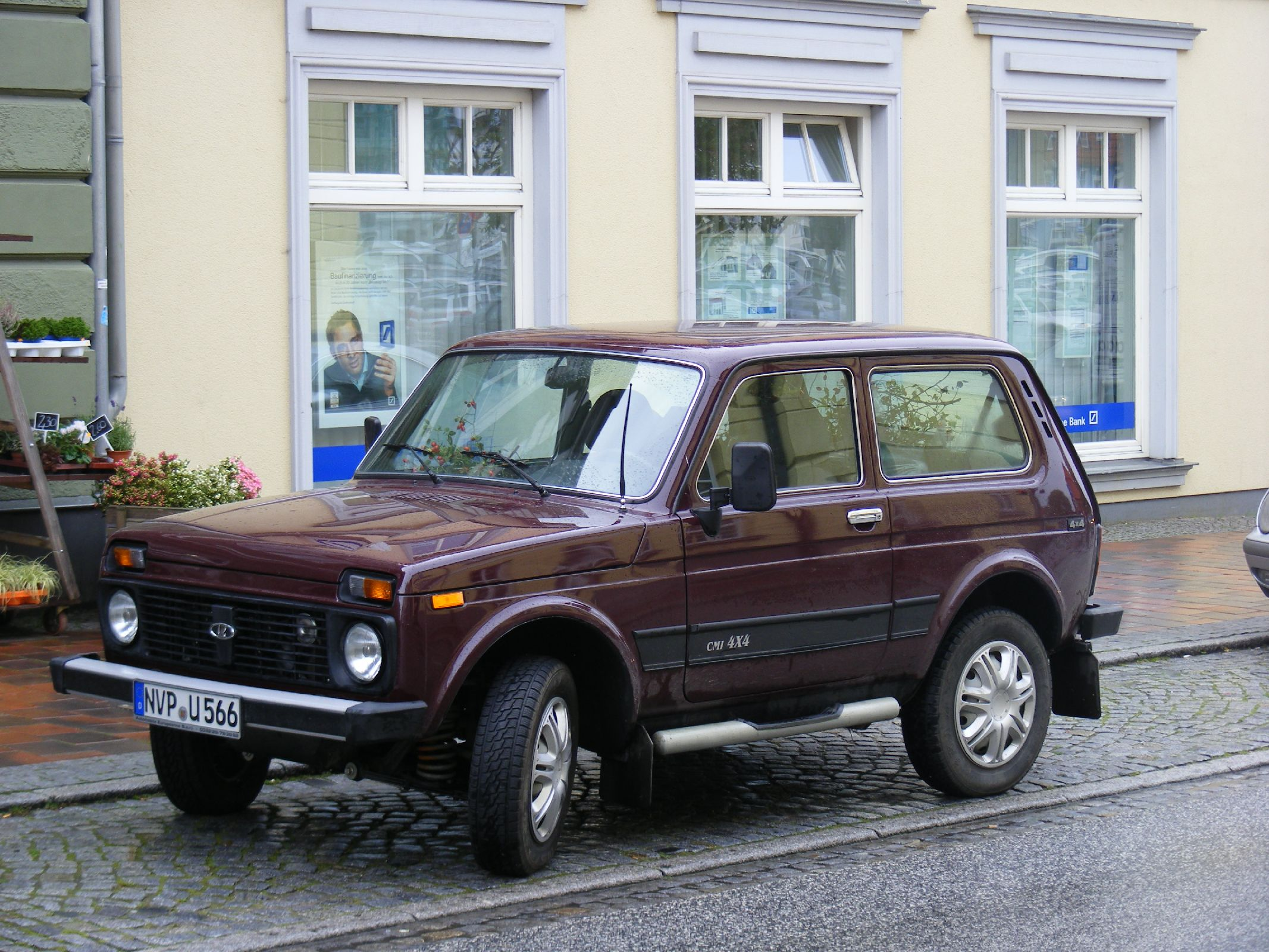 Very smart Lada Niva. Also known as the VAZ-2121 - wikipedia page here